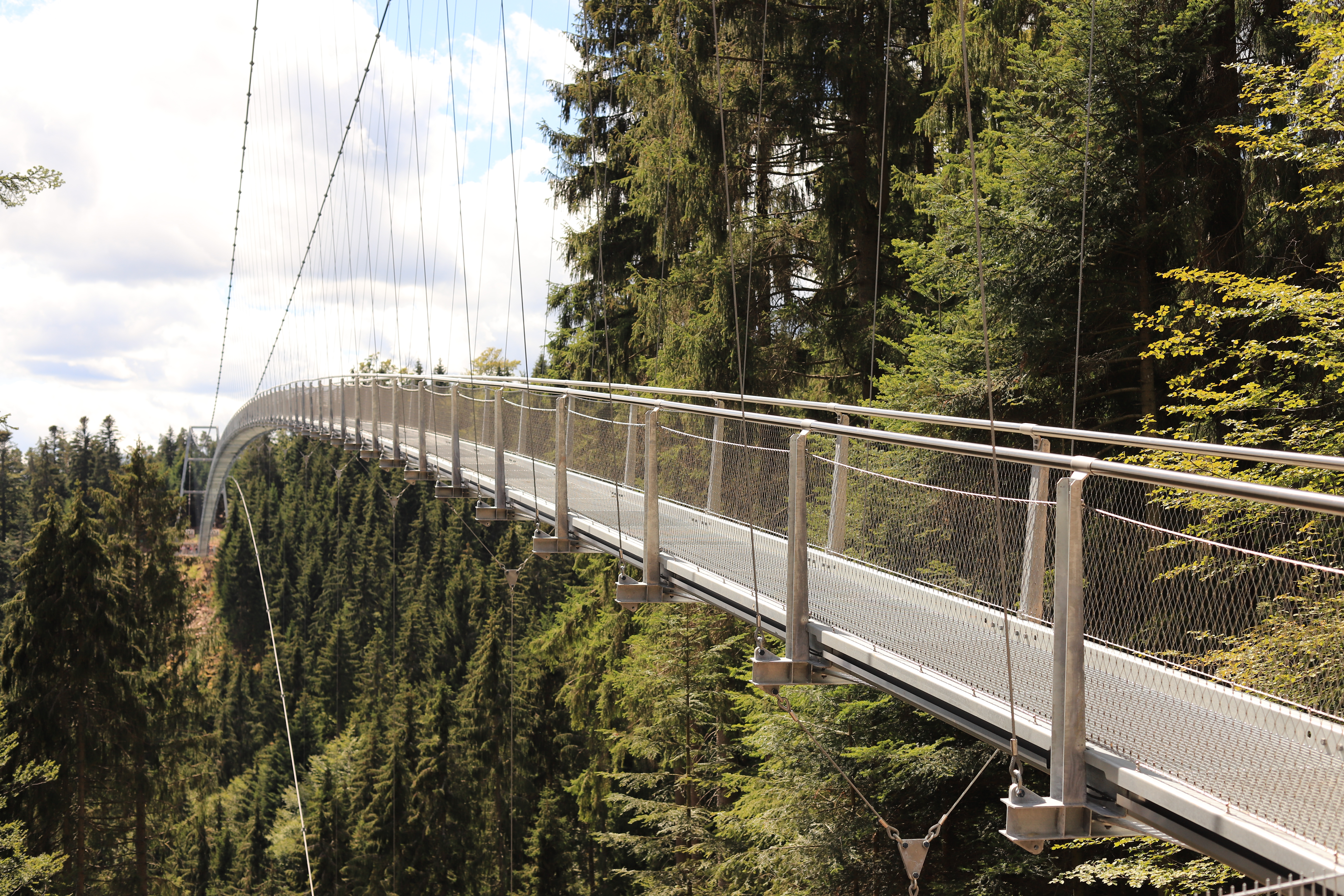 Suspension bridge "Wildline" in Bad Wildbad (Germany)